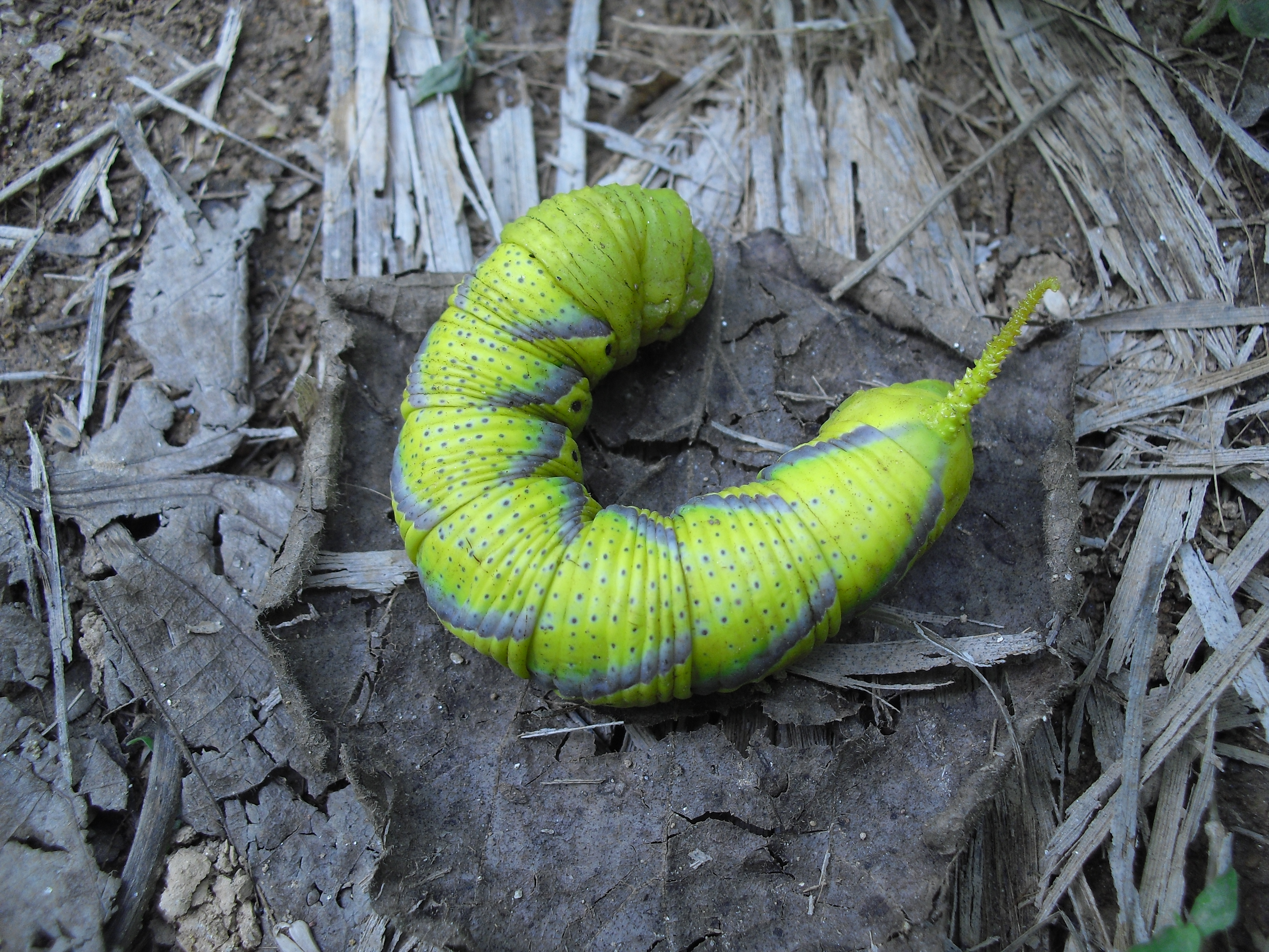 Caterpillar of Deaths-head Hawk-moth top view